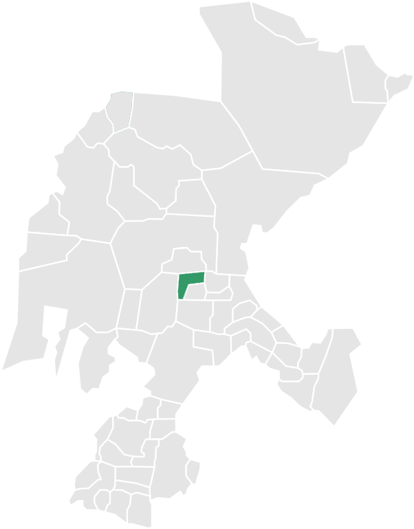 Map of the Municipality of Calera in Zacatecas, México.